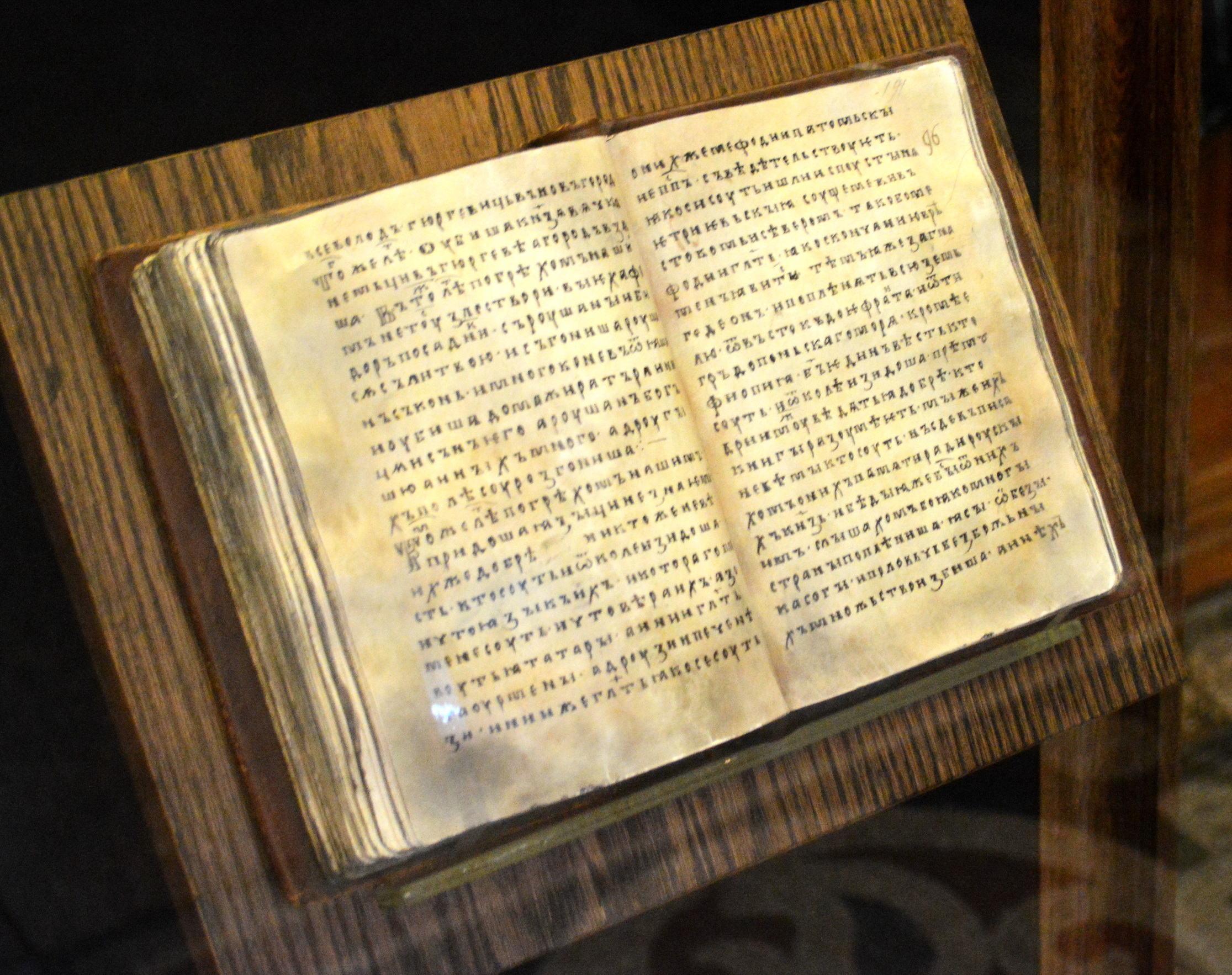 Novgorod First Chronicle, 13-14c.